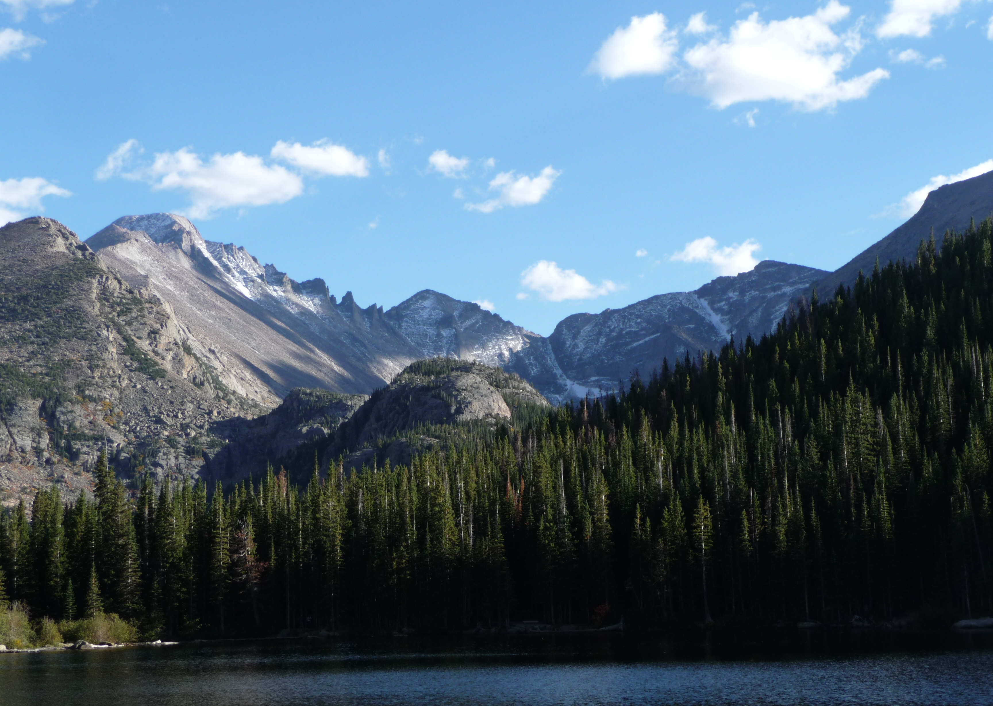 See file name